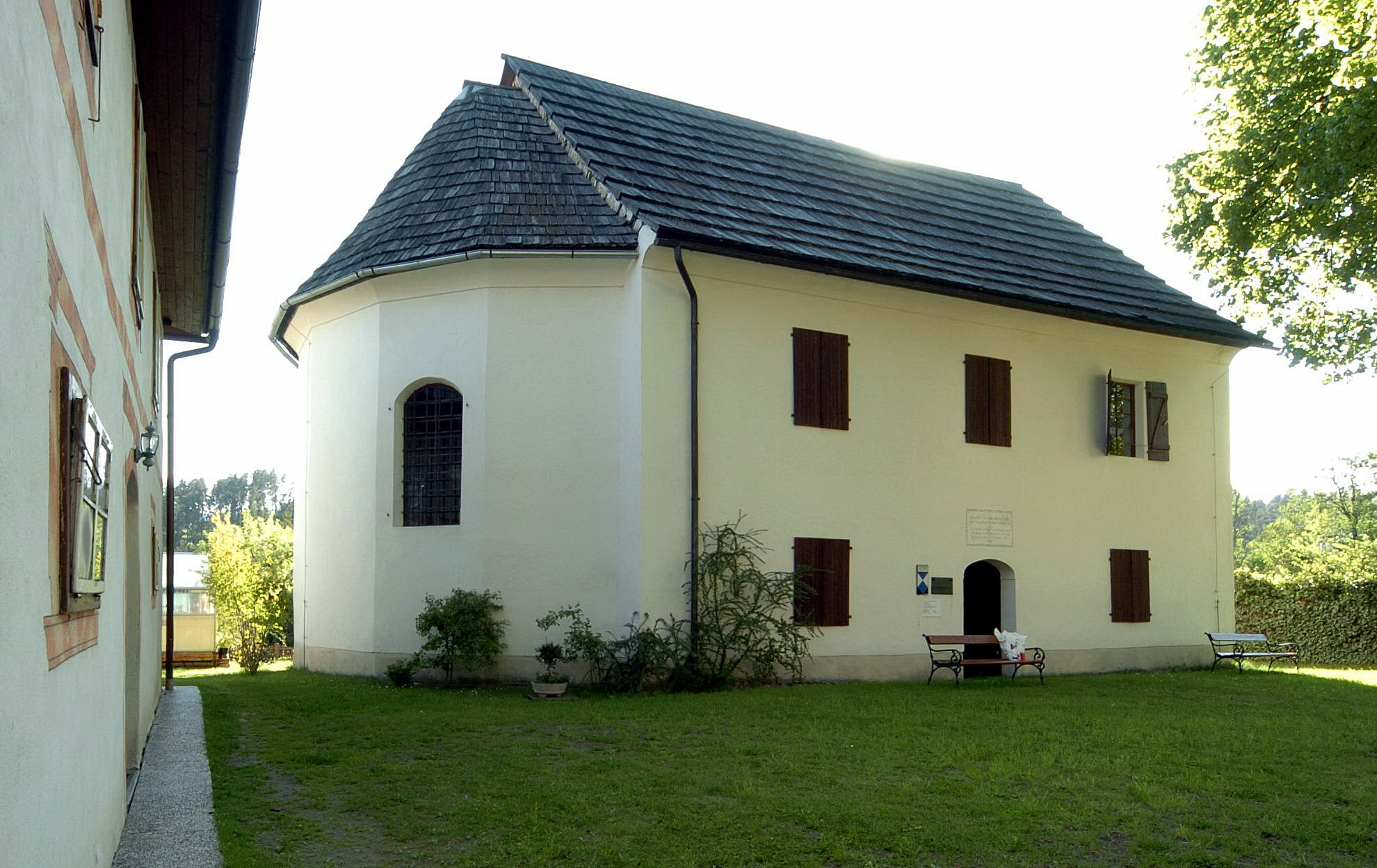 Diocese museum (formerly Lutheran tolerance meeting house) in Fresach, municipality Fresach, district Villach Land, Carinthia, Austria, EU